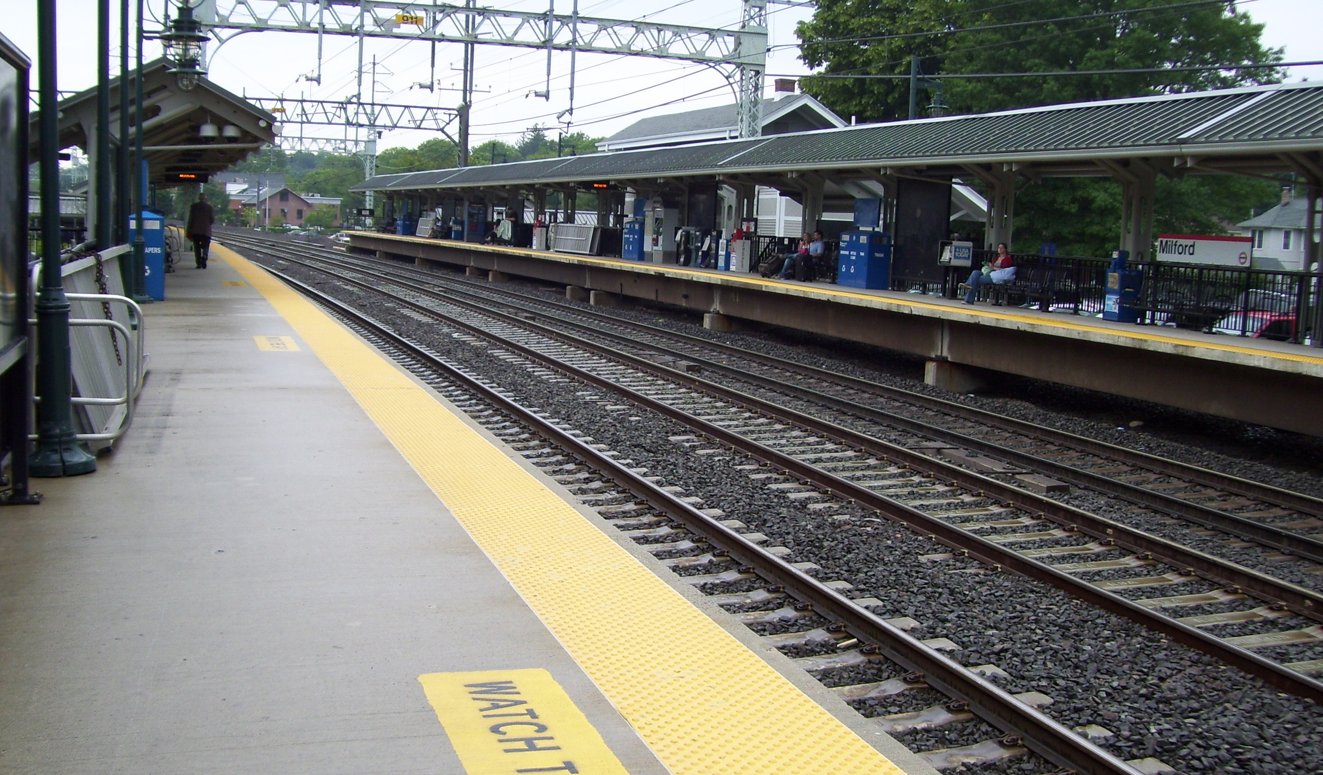 Milford Metro-North station, looking west towards Grand Central